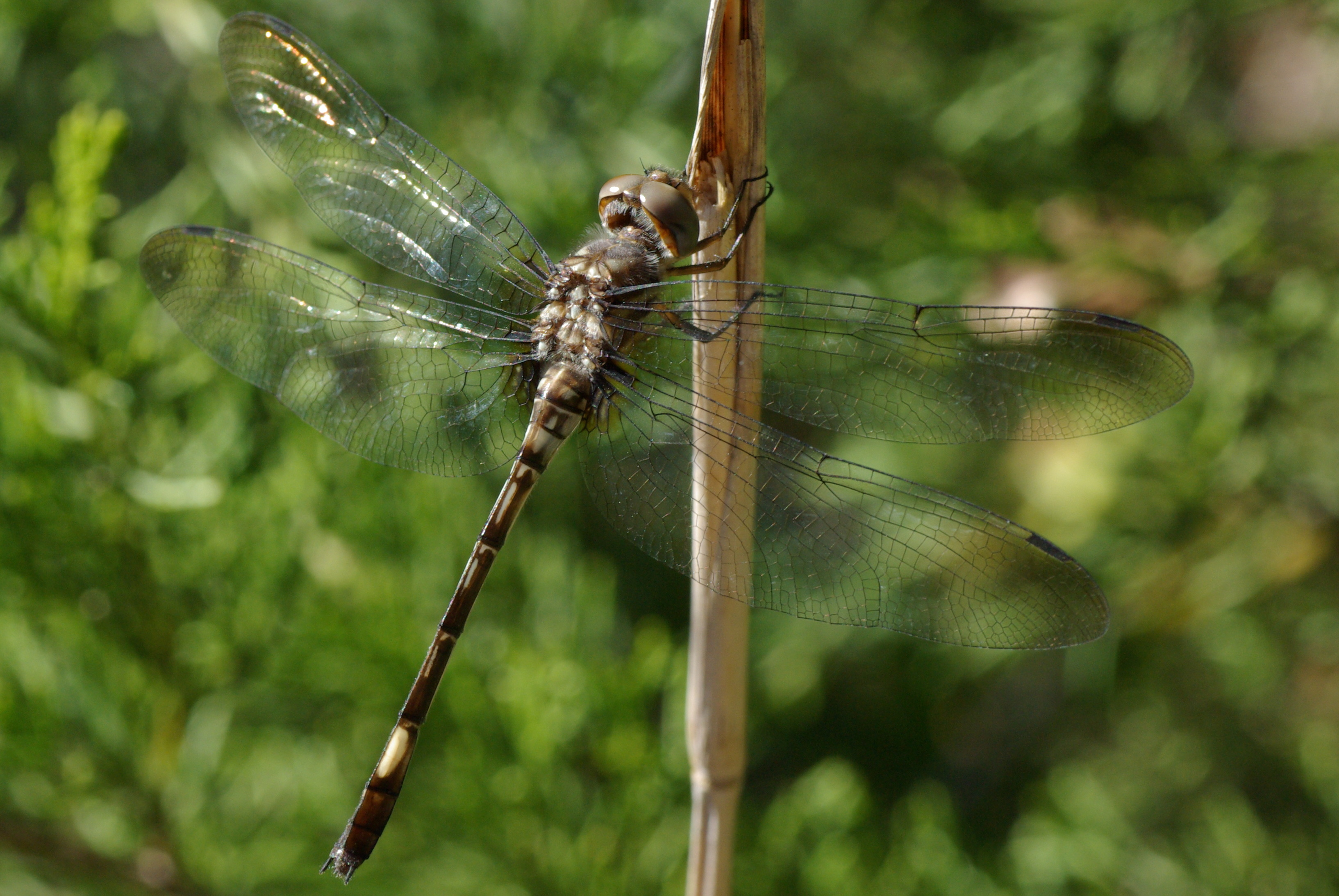 Female Pale-faced Clubskimmer (Brechmorhoga mendax) in Galatyn Woodlands of Richardson, Texas.